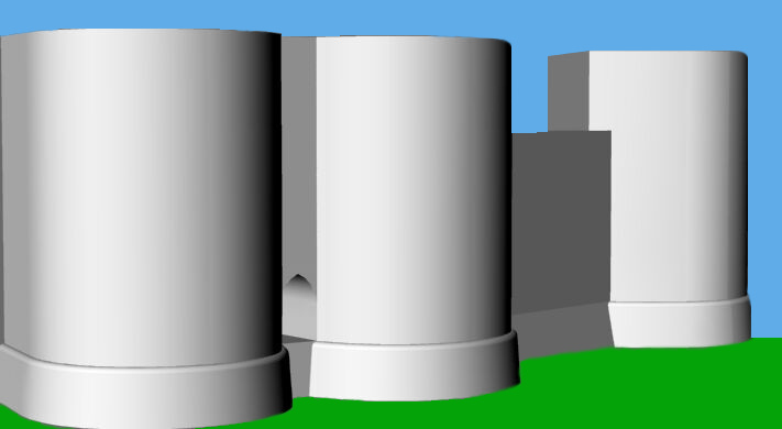 Bolingbroke Castle Reconstruction-Rhino 3D Screenshot